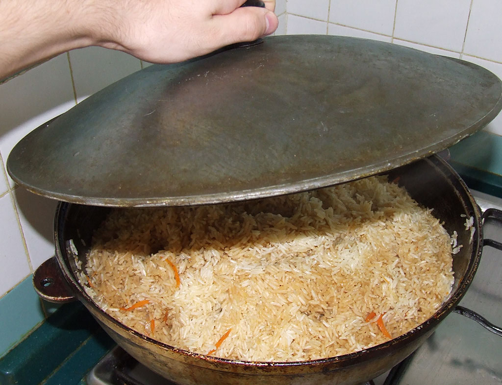 Pilaf being prepared in a kazan